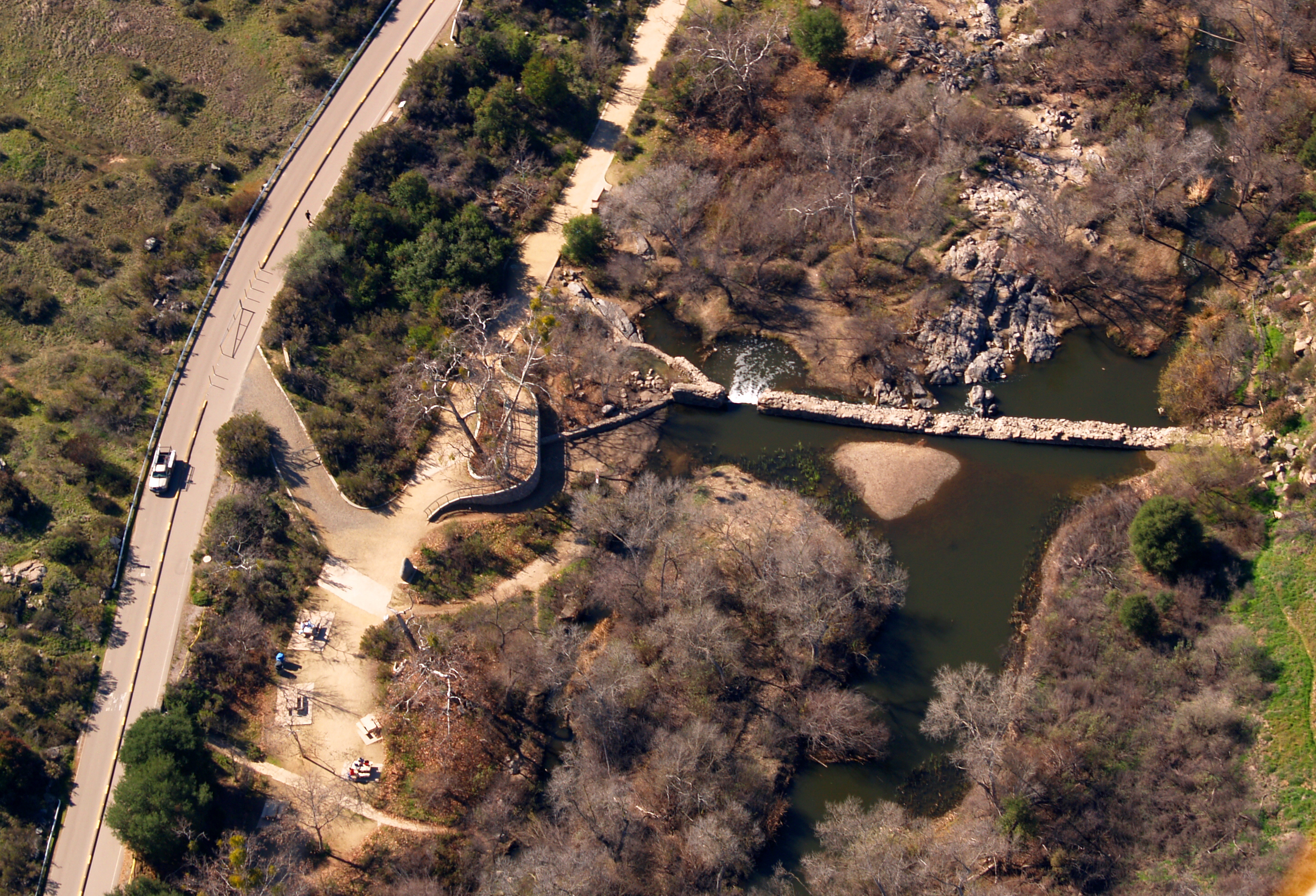 An aerial photo of Old Mission Dam in Mission Trails Regional Park, San Diego Please acknowledge "Phil Konstantin" as the creator of this photograph.